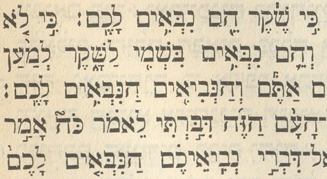 Hebrew Bible, Jer. 27